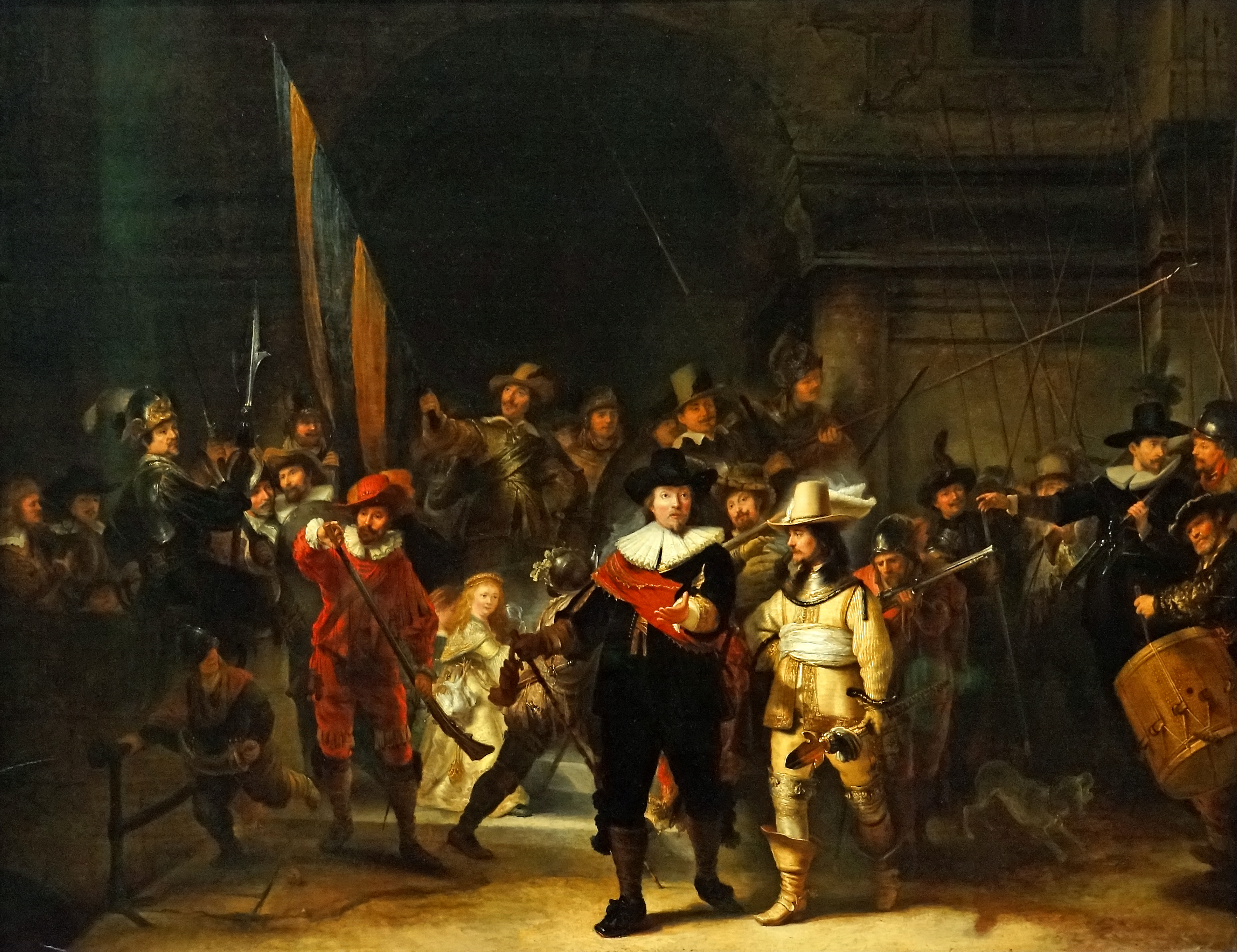 PLEASE,NO invitations or self promotions, THEY WILL BE DELETED. My photos are FREE to use, just give me credit and it would be nice if you let me know, thanks. The Night Watch or The Shooting Company of Frans Banning Cocq is the common name of one of the most famous works by Dutch painter Rembrandt van Rijn. It is prominently displayed in the Rijksmuseum, as the best known painting in its collection. The Night Watch is one of the most famous paintings in the world. The painting was completed in 1642, at the peak of the Dutch Golden Age. It depicts the eponymous company moving out, led by Captain Frans Banning Cocq (dressed in black, with a red sash and his lieutenant, Willem van Ruytenburch (dressed in yellow, with a white sash) In 1715, upon its removal from the Kloveniersdoelen to the Amsterdam Town Hall, the painting was trimmed on all four sides. This was done, presumably, to fit the painting between two columns and was an all-too-common practice before the 19th century. This alteration resulted in the loss of two characters on the left side of the painting, the top of the arch, the balustrade, and the edge of the step. This balustrade and step were key visual tools used by Rembrandt to give the painting a forward motion.